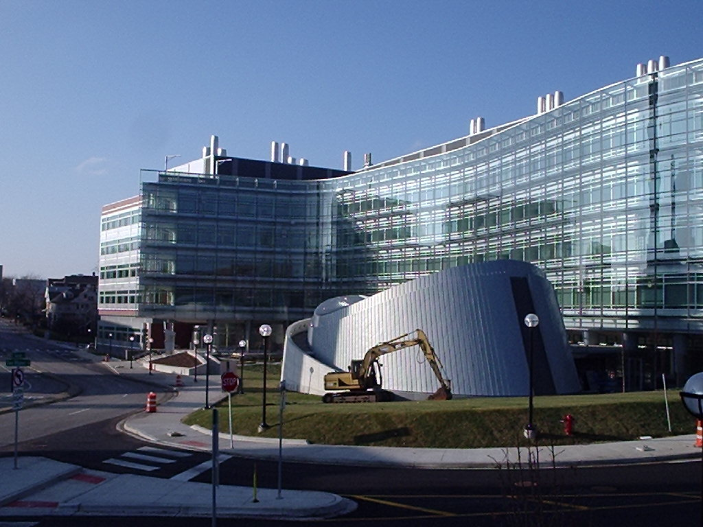 The University of Michigan Biomedical Science Building. Taken January 8, 2006.